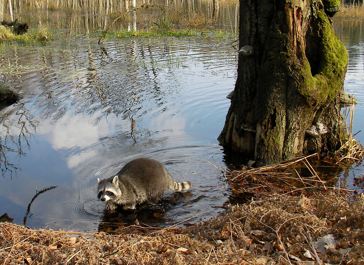 The raccoon Molly searching for food at a lakeshore.